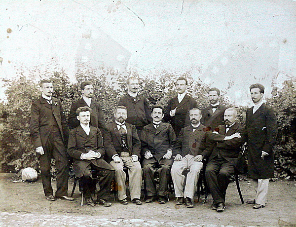 Bitolya Bulgarian High School Teachers